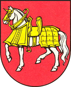 Coat of arms of Groitzsch.